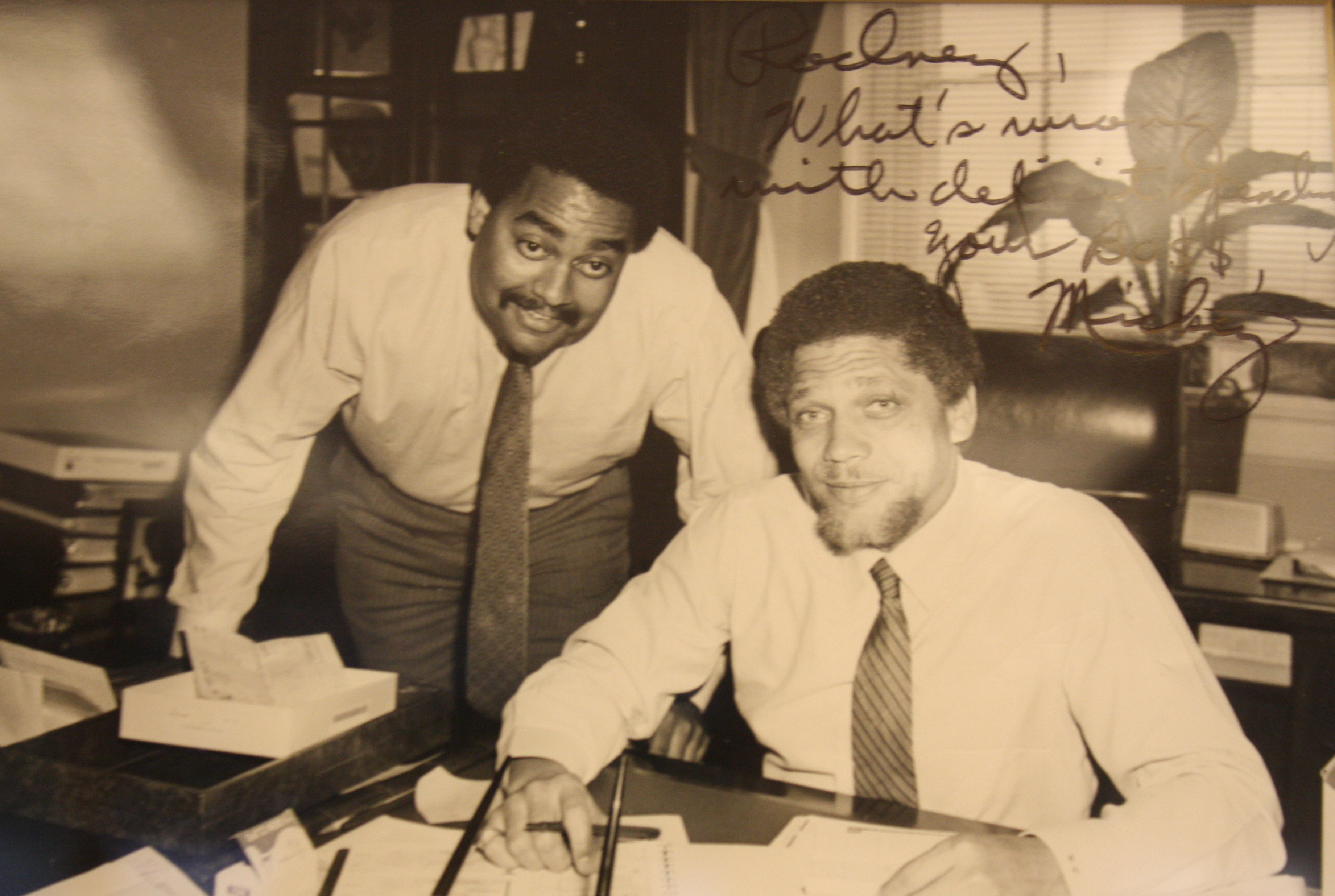 Rodney Ellis and Congressman Mickey Leland, when Ellis served as Leland's chief of staff